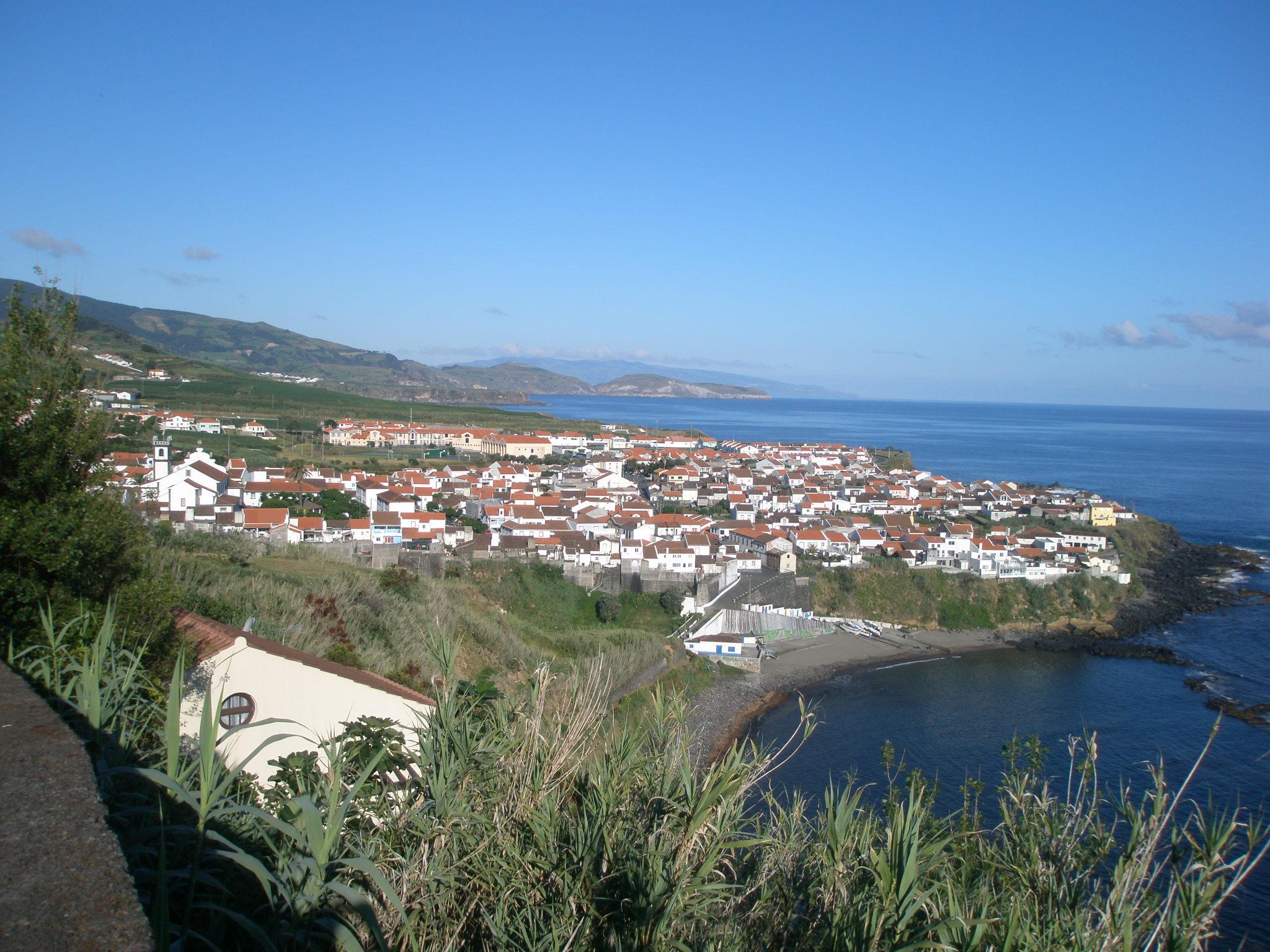 my home town MAIA, Ribeira Grande, São Miguel, Azores